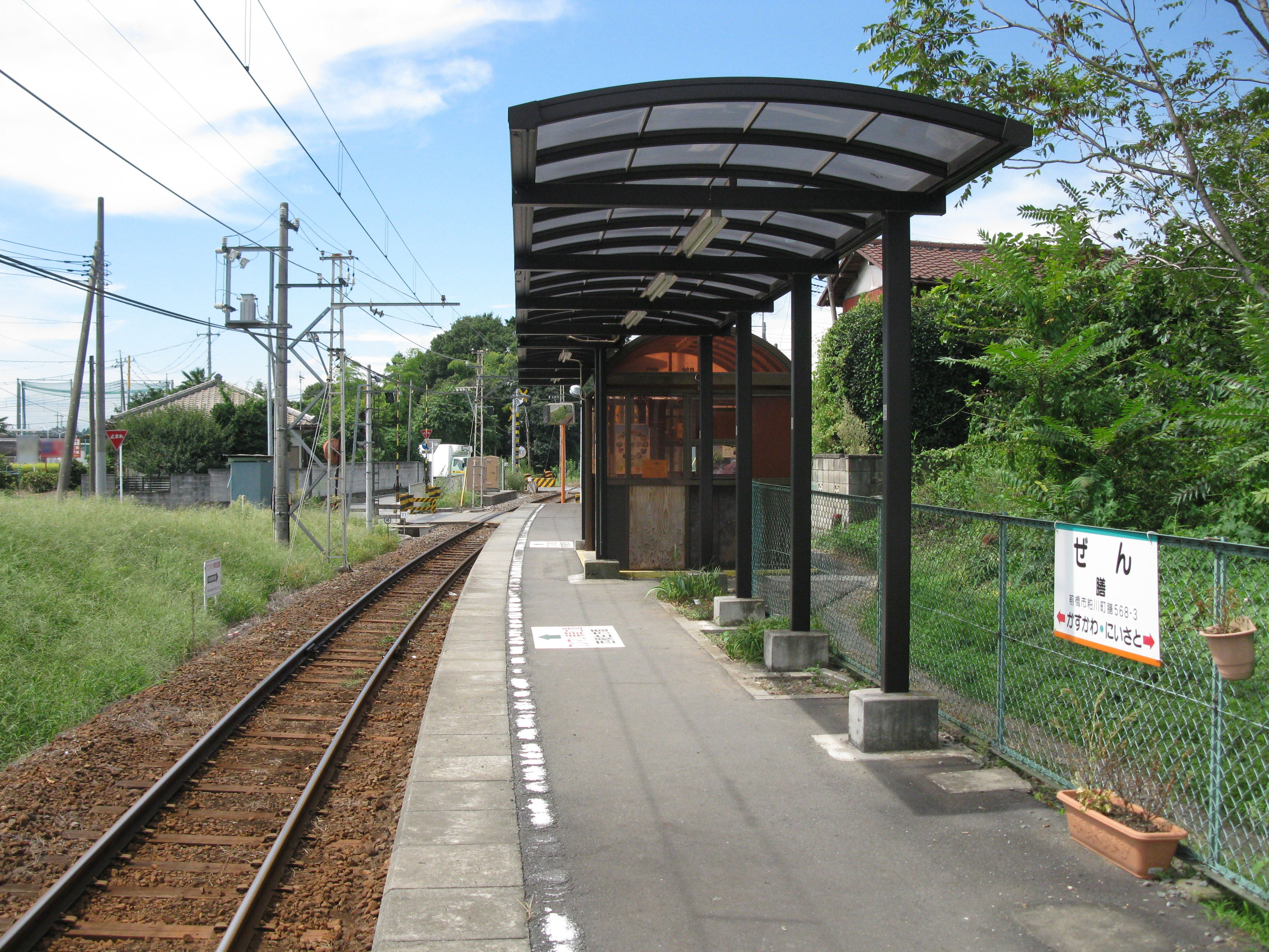 Zen Station platform (Jōmō Electric Railway Company Jōmō Line)